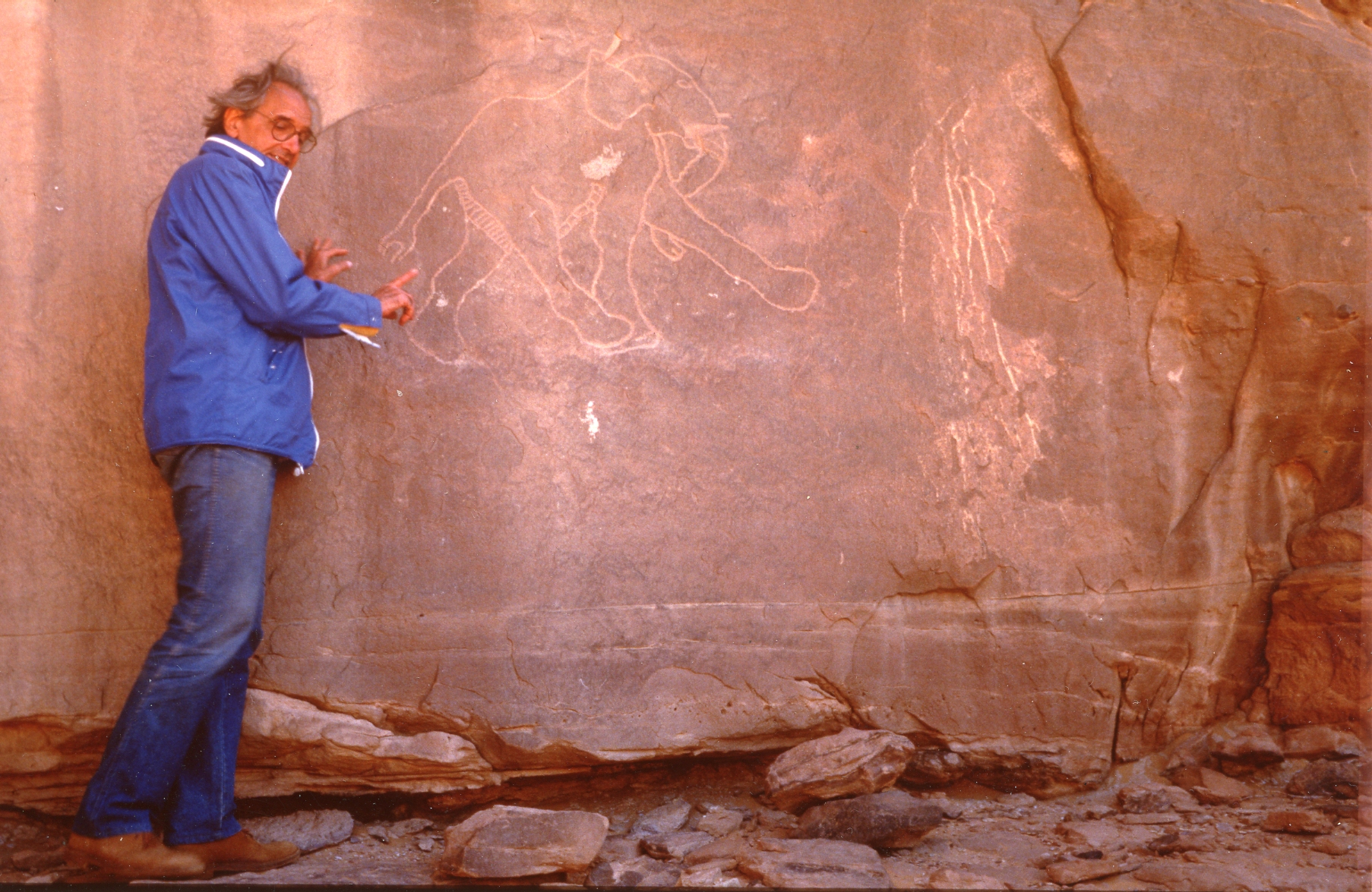 Fabrizio Mori in the Wadi Teshiunat in 90's